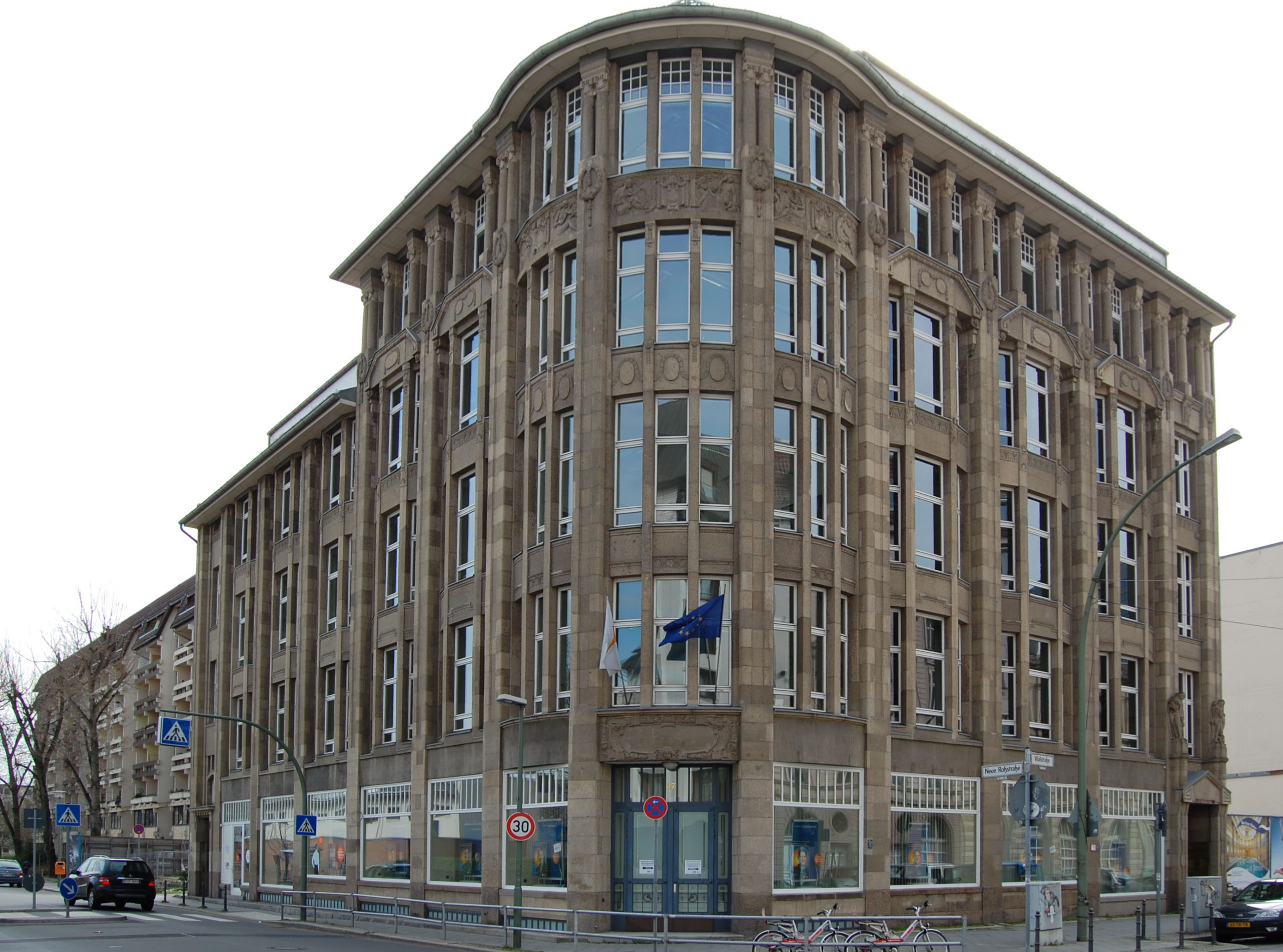 Former Embassy of Cyprus in Berlin. The Embassy moved to Kurfürstendamm 182, 10707 Berlin in 2015. So please be careful when using this image. (